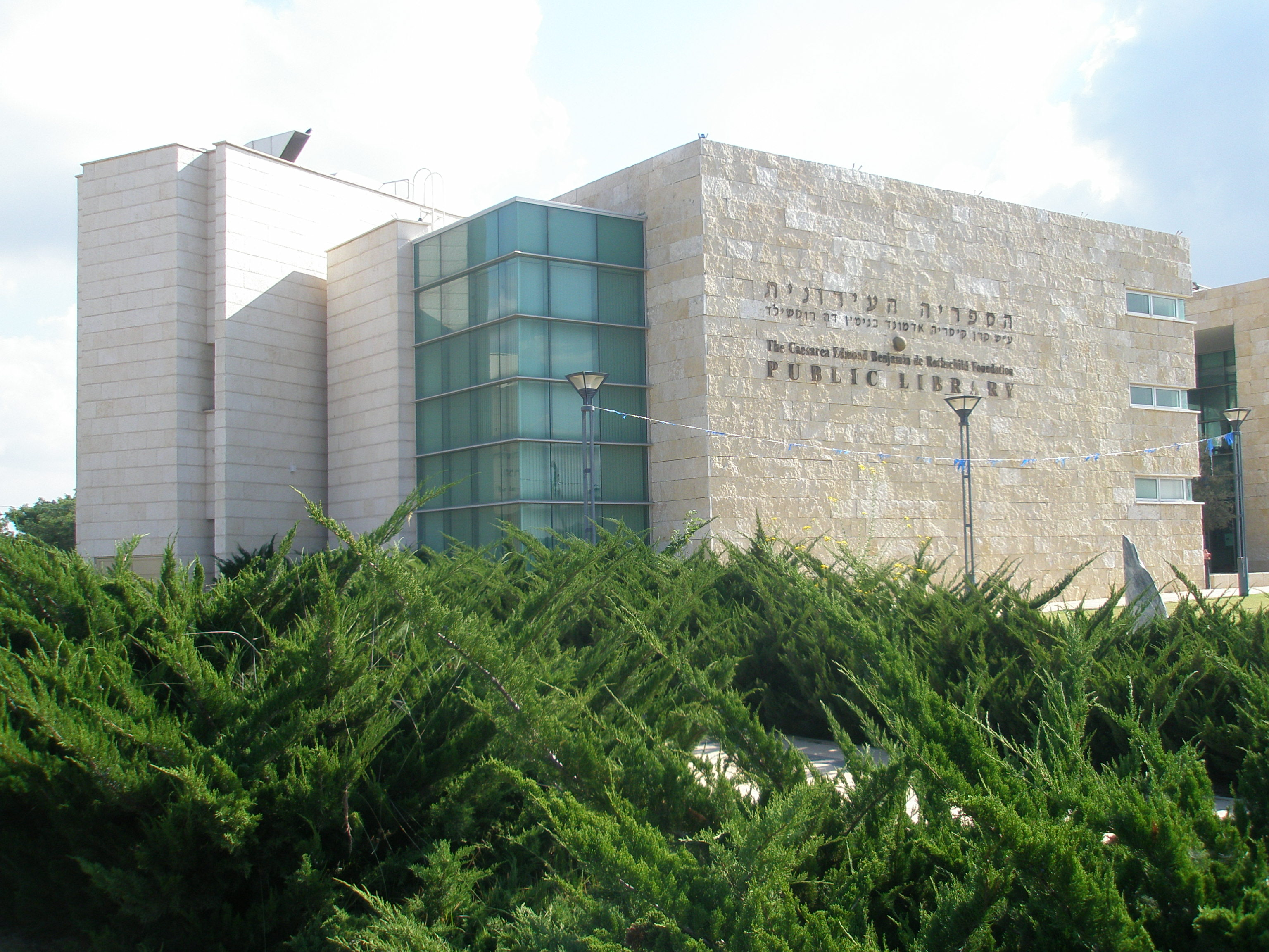 Or Akiva public library